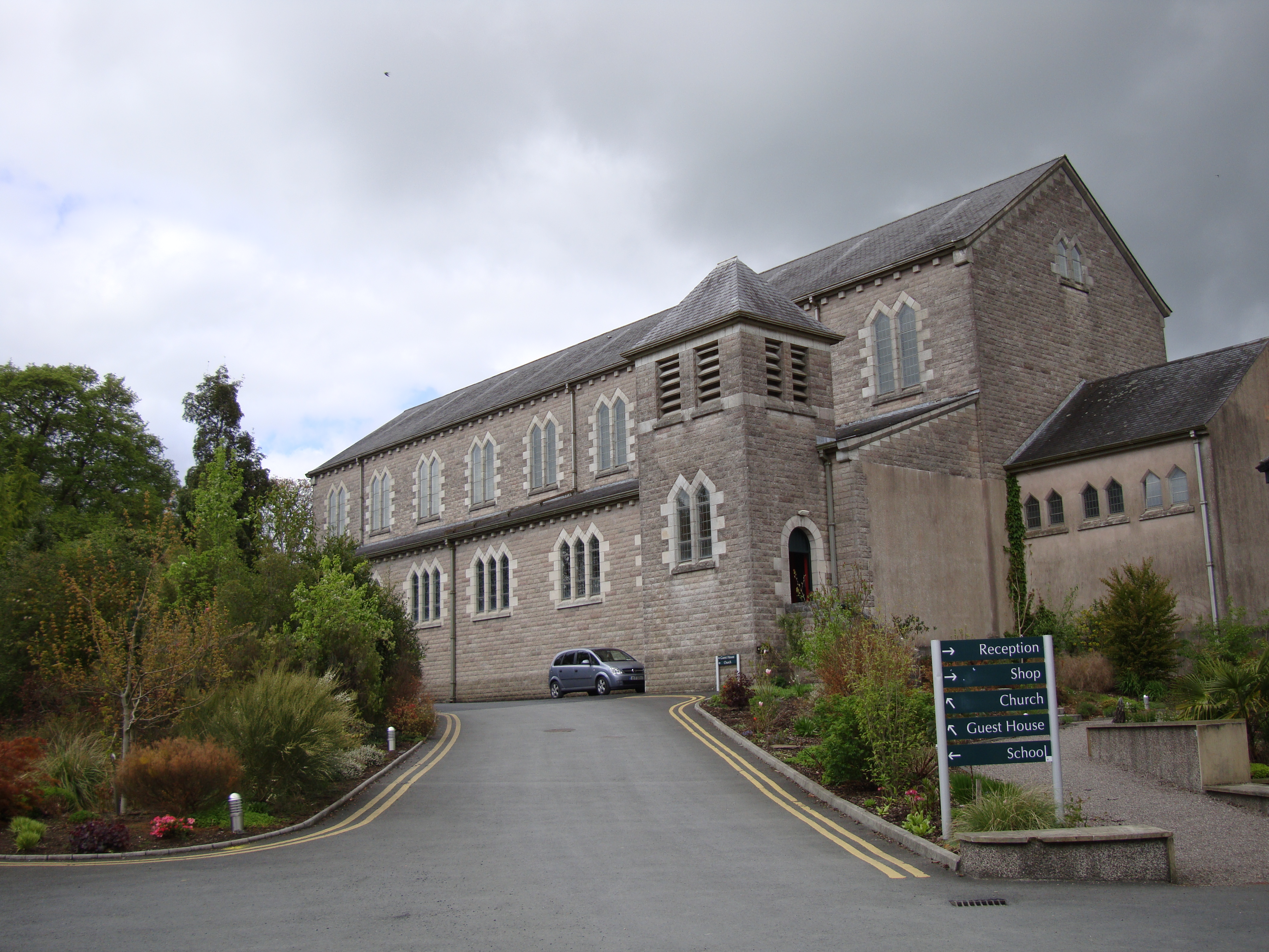 Photograph of Glenstal Abbey church, Co. Limerick, Ireland